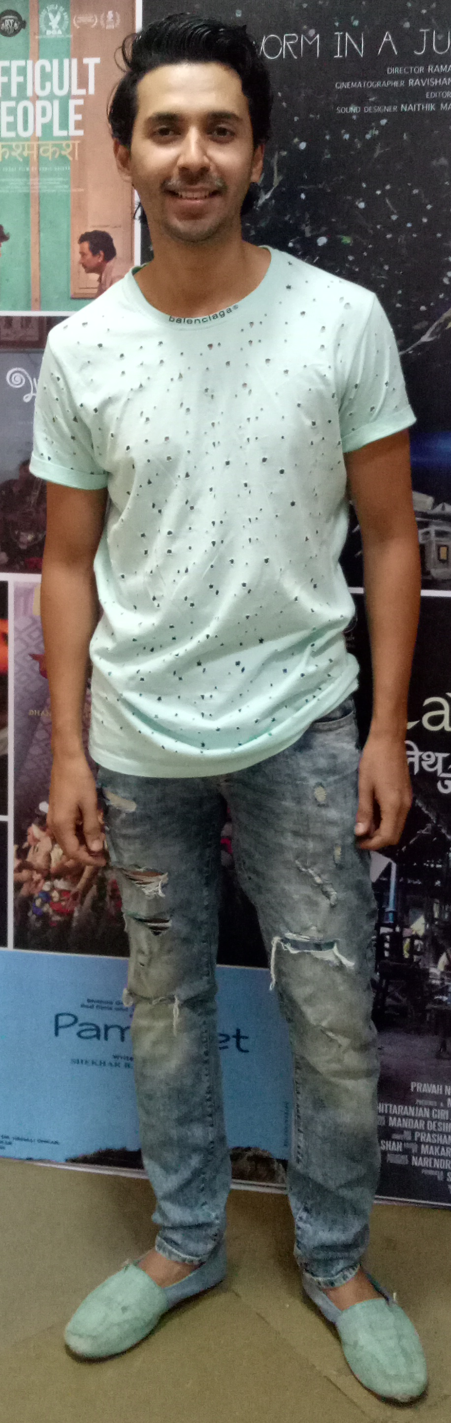 Abhay Mahajan at National Film Archive of India for the Screening of Short Film Difficult People